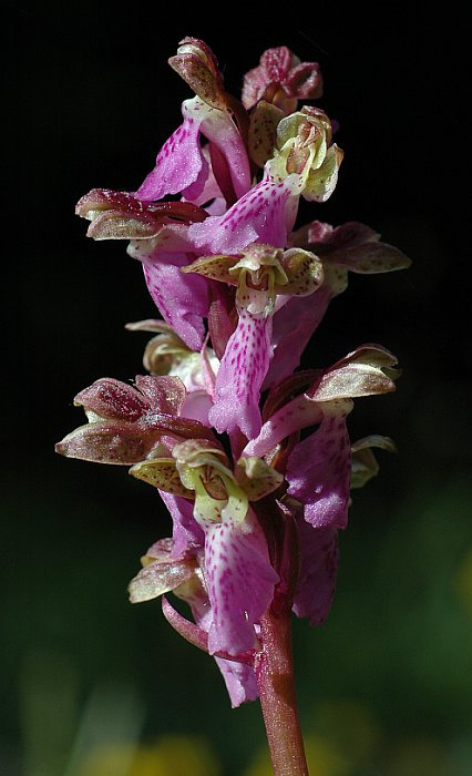 Orchis spitzelii, flowers, Vercors, France